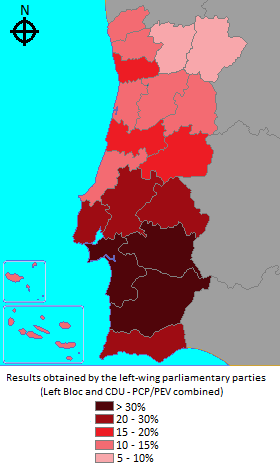 Results obtained by the left-wing parliamentary parties - 2015